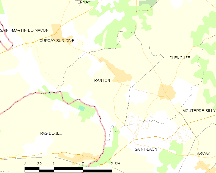 Map of French municipality Ranton